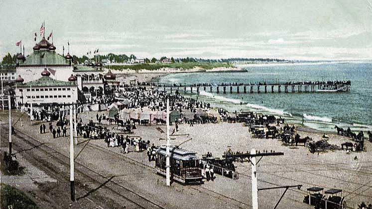 Fred Swanton (1862–1940) promoted building the Neptune Casino at Santa Cruz, California. Completed in 1904 (shown here) it survived the 1906 earthquake but burned down from a kitchen fire in June 1906.